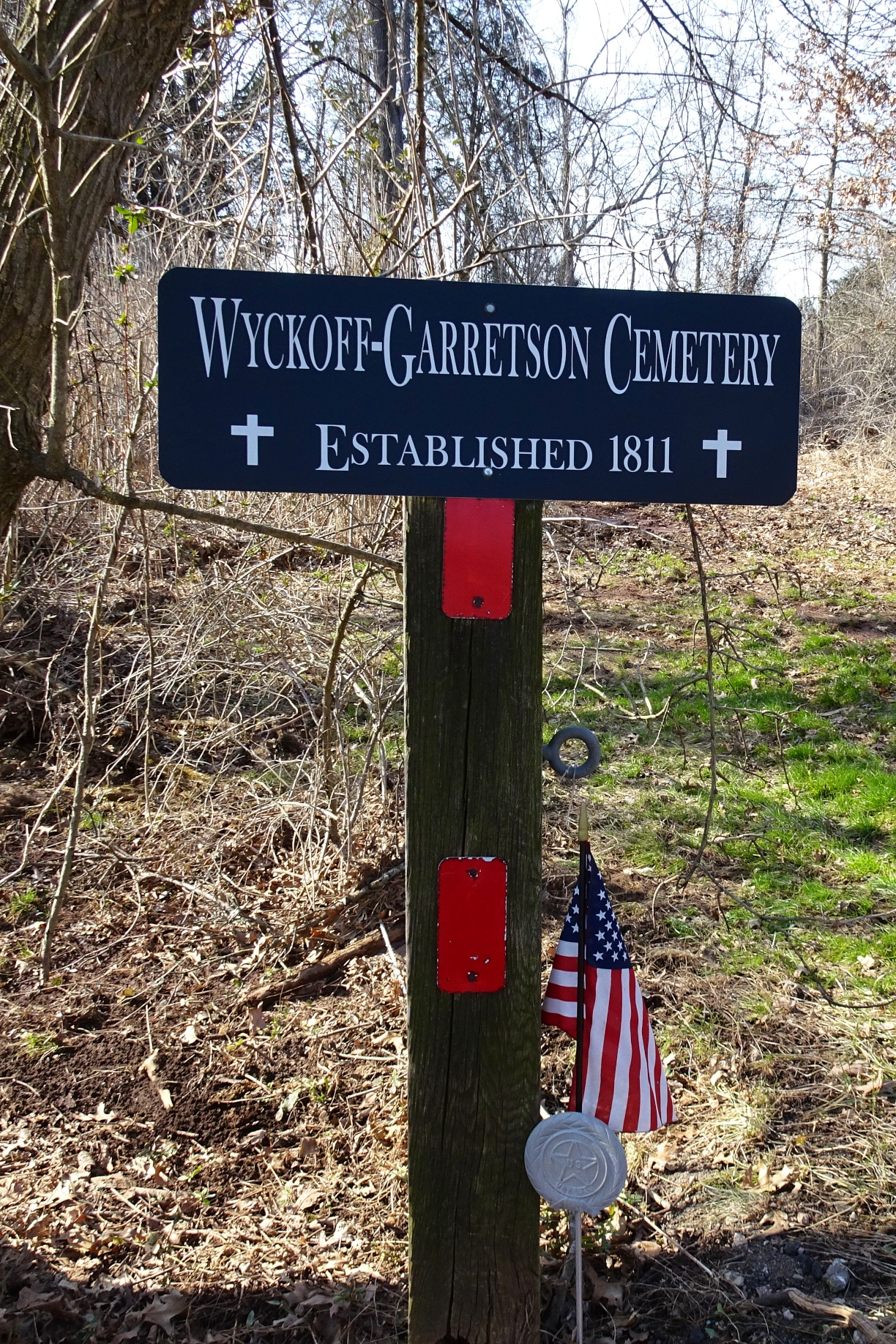 Wyckoff-Garretson Cemetery information sign, located along South Middlebush Road in Franklin Township, Somerset County, New Jersey.